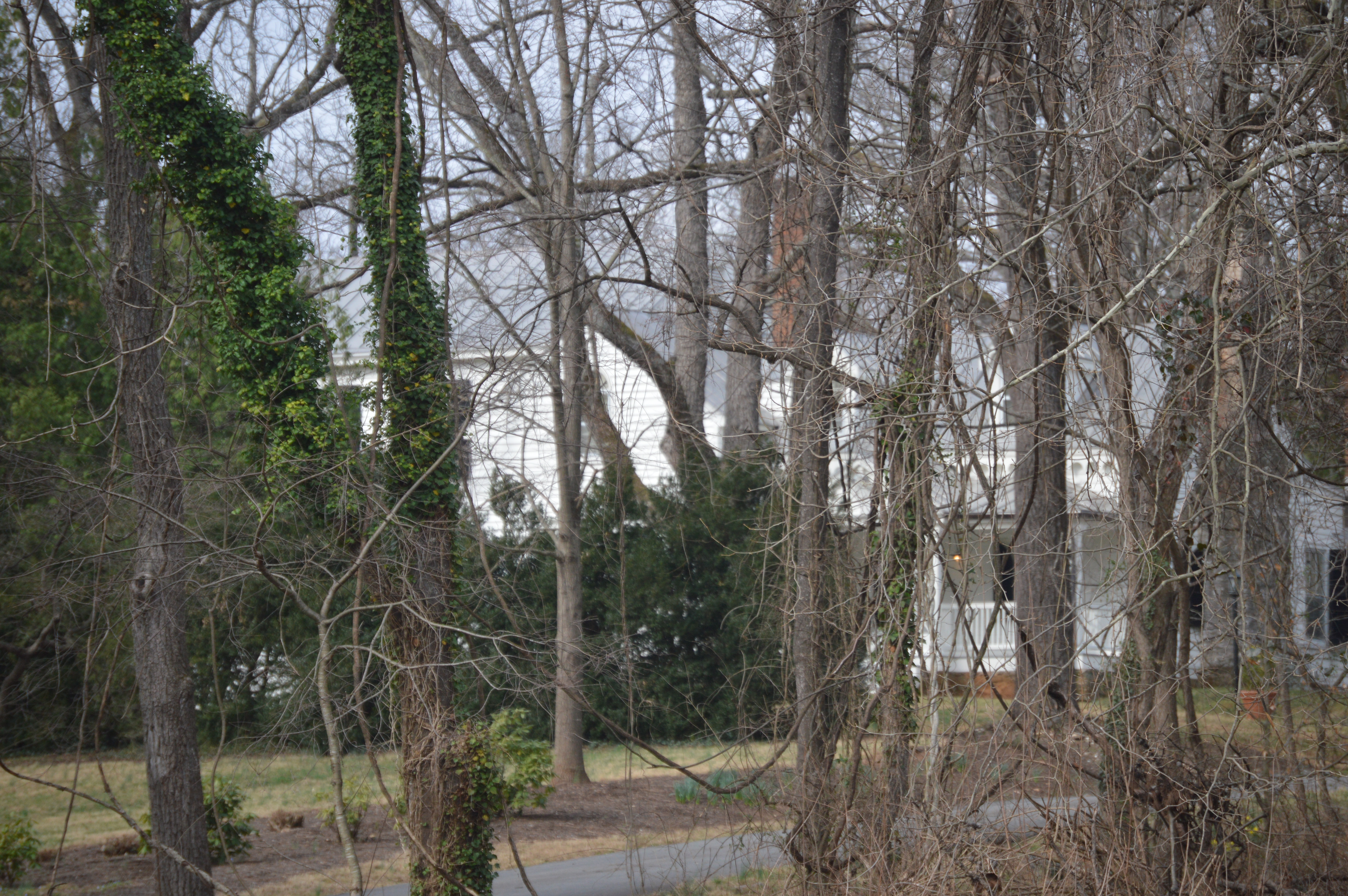 Through-the-trees view of Sunnyside, located at 2150 Barracks Road in Charlottesville, Virginia, United States. Built in 1858, it is listed on the National Register of Historic Places.